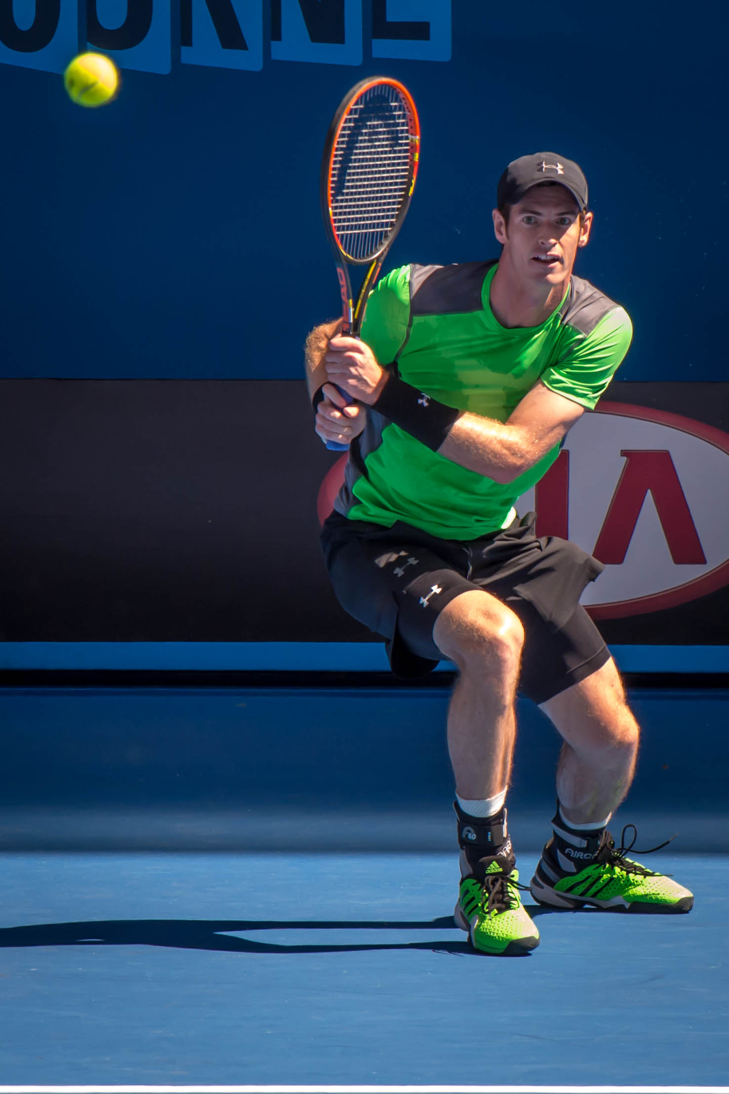 Andy Murray (GBR)[6] during his 3rd round straight-sets win over Joao Sousa (POR) at the 2015 Australian Open in Hisense Arena.